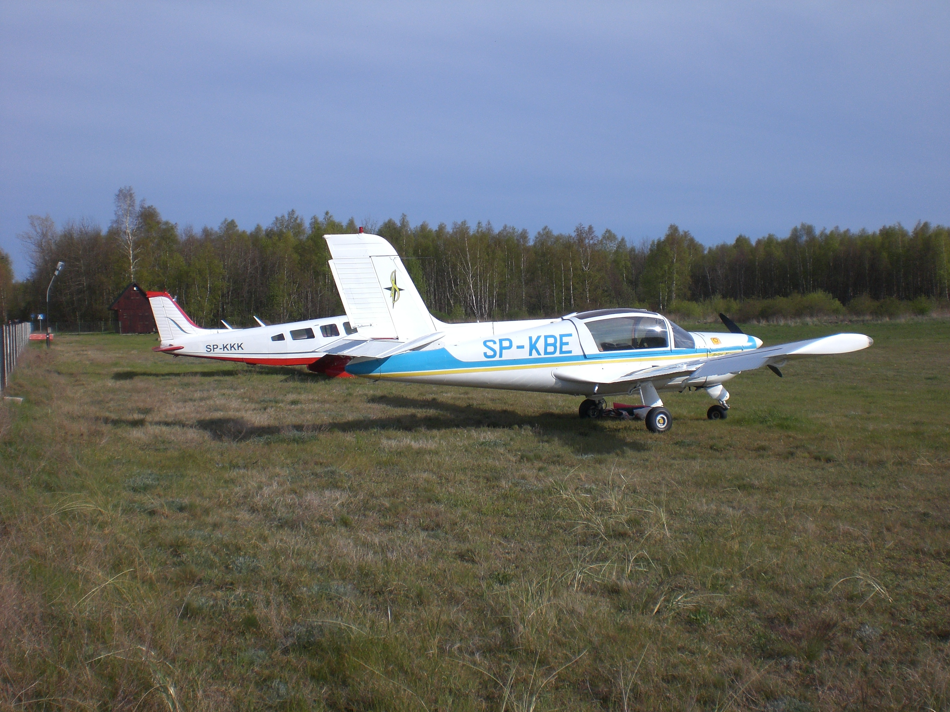 Airfield in Jastarnia